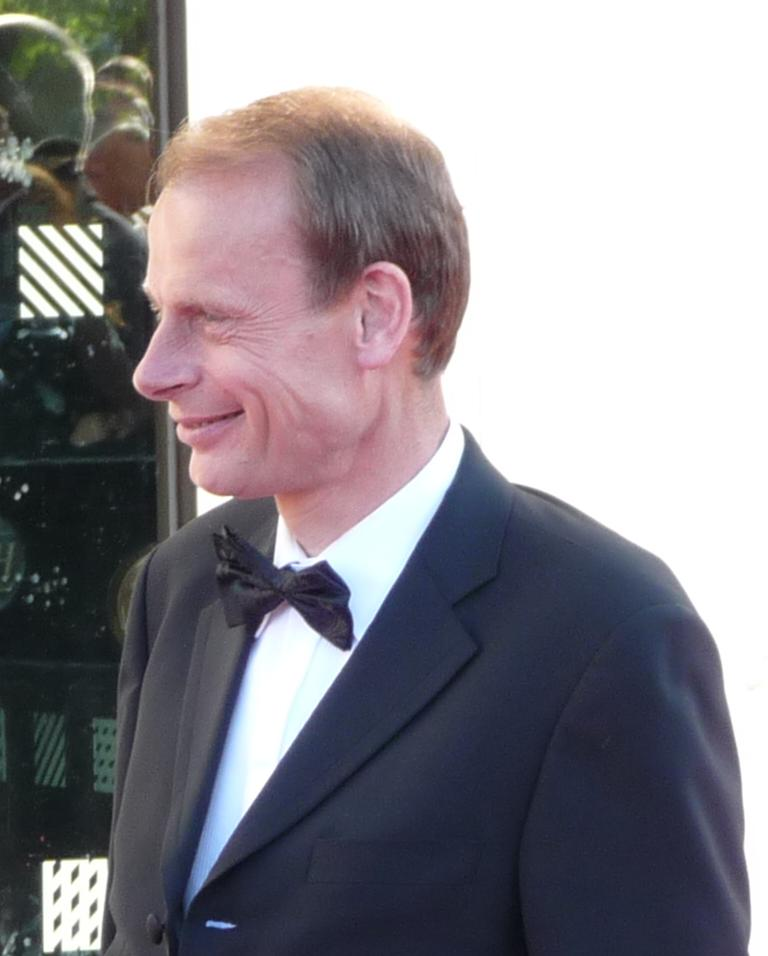 BBC Politics journalist Andrew Marr on the red carpet at the BAFTA Awards, held at the Royal Festival Hall, on the Southbank in London.